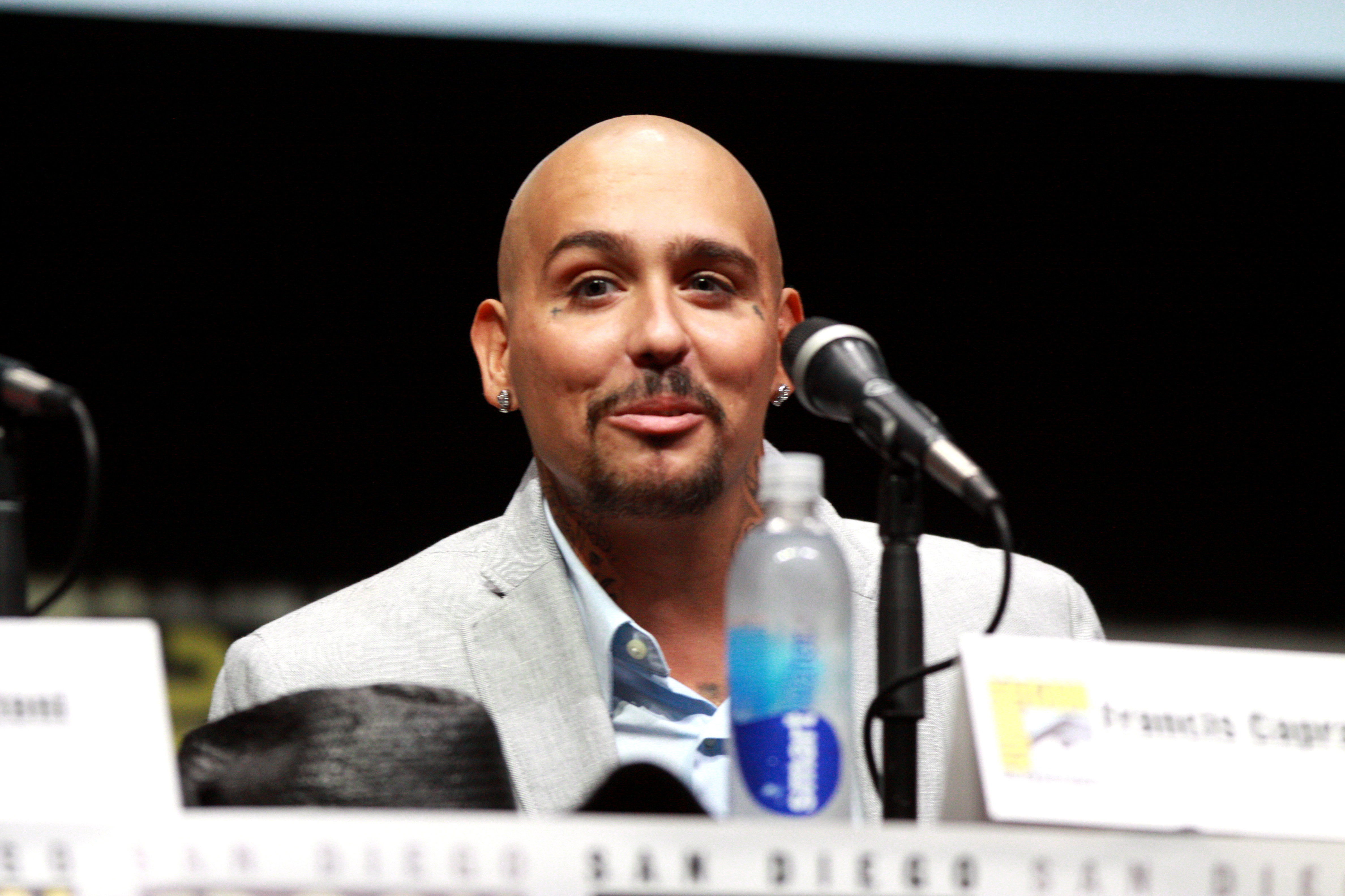 Capra at San Diego Comic Con International in 2013